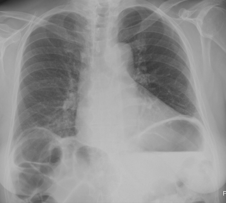 Chest X-ray showing obvious Chilaiditi's sign, or presence of gas in the right colic angle between the liver and right hemidiaphragm (left side of the image).